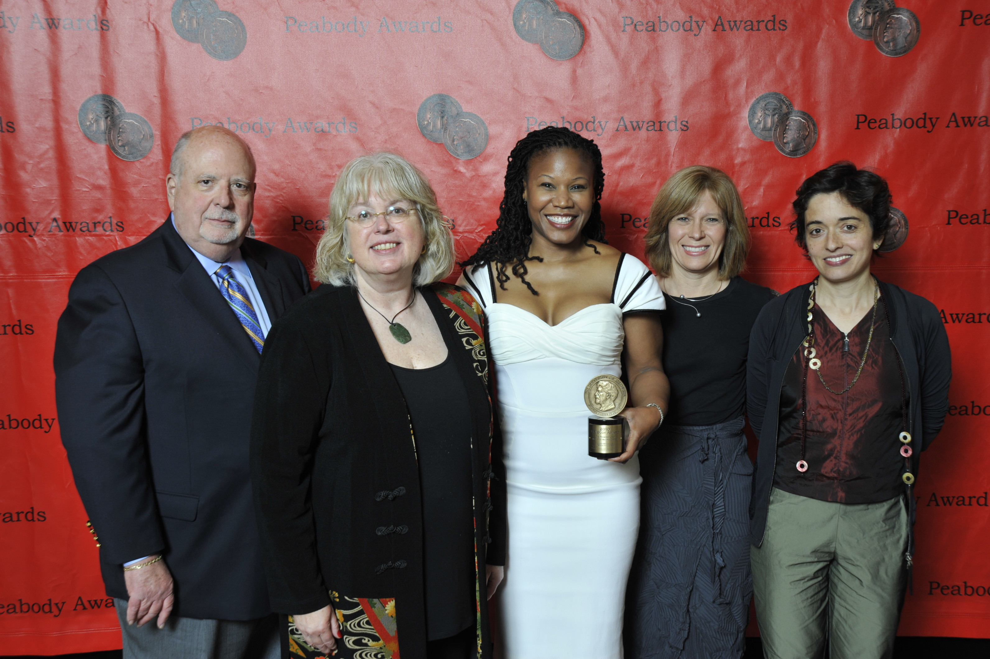 PHOTO CREDIT: ANDERS KRUSBERG / PEABODY AWARDS L to R: Fred Young (juror), Marge Ostroushko, Majora Carter, Mary Beth Kircher and Emily Botein, with the Peabody Award for The Promised Land, 70th Annual Peabody Awards Luncheon Waldorf-Astoria Hotel, May 23, 2011